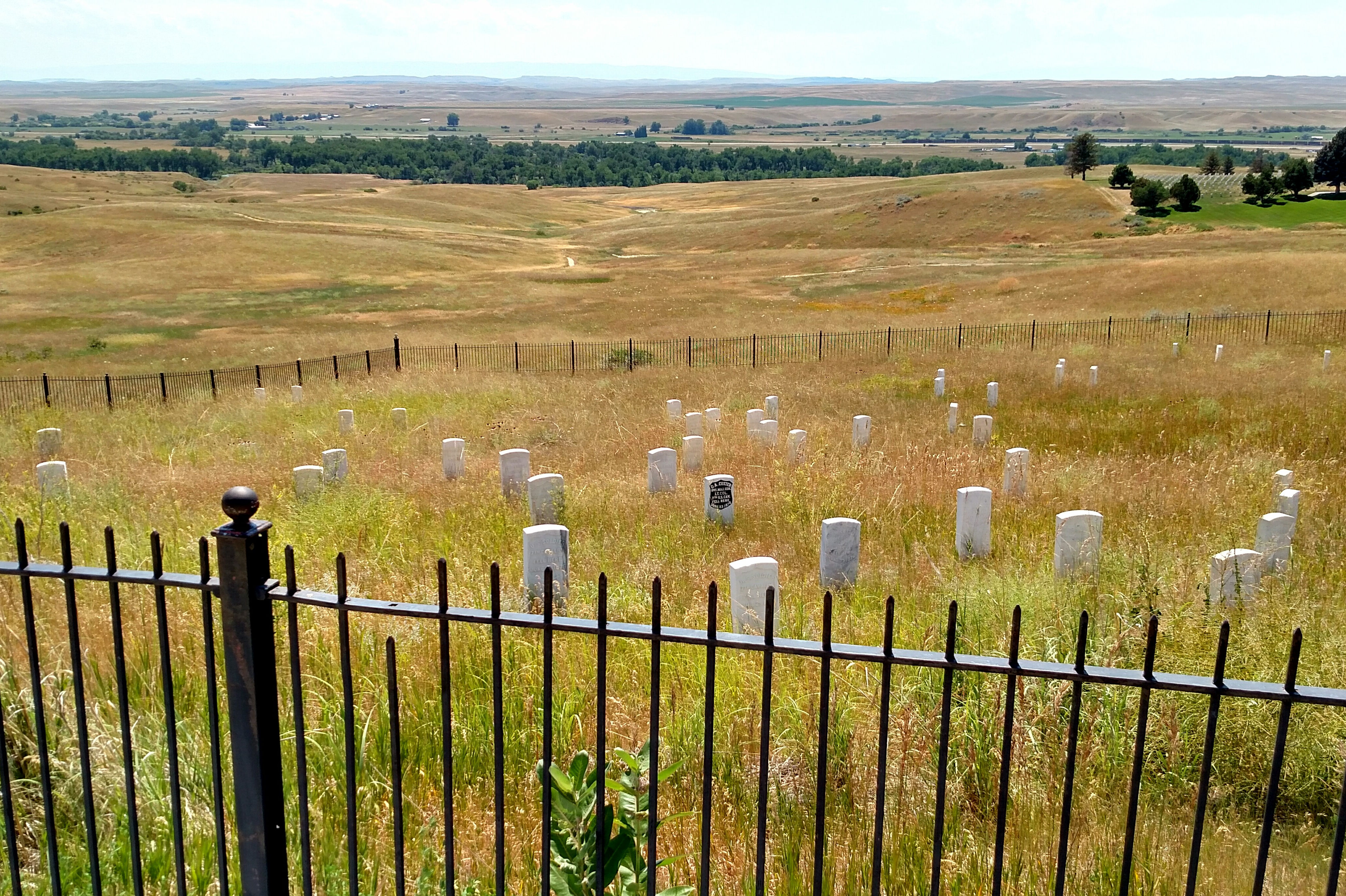 Monuments to where those at the Battle of the Little Bighorn fell. Spot where General George Armstrong Custer fell is denoted in black on marker in the center of image.